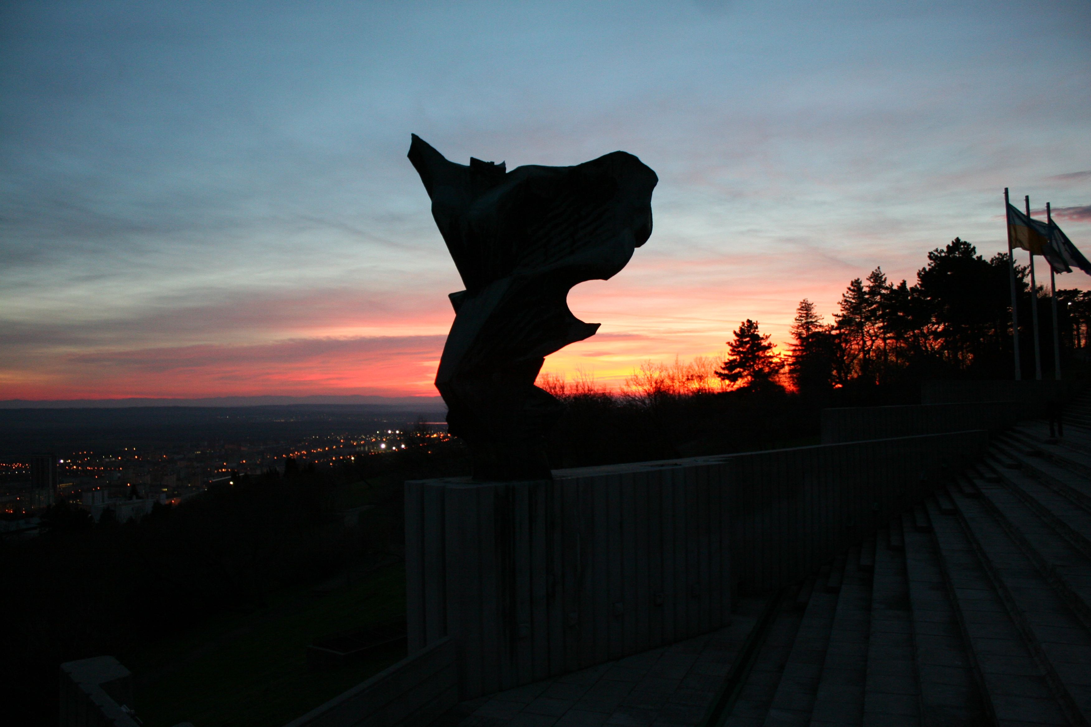 Memos Makris: Niké Statue